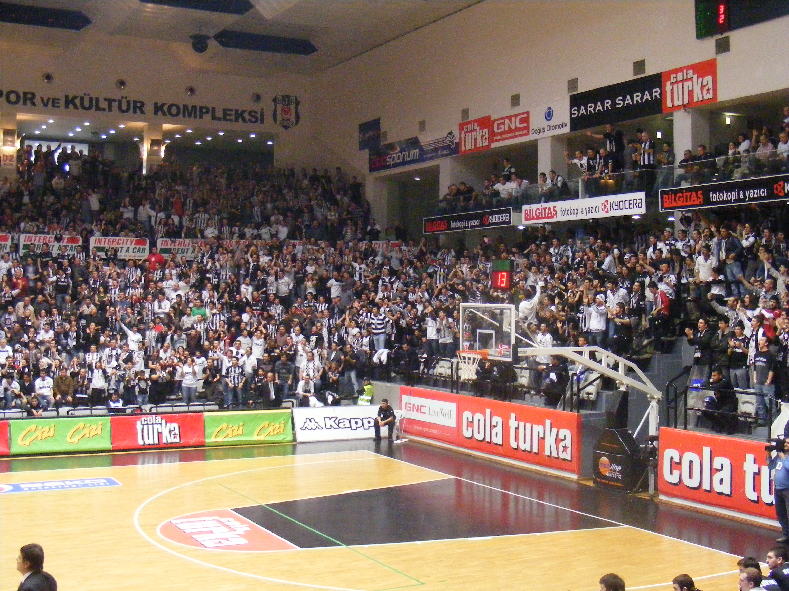 BJK Fans at match against FB Ulker